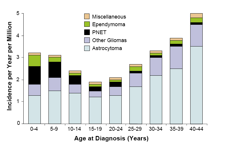 Figure 6.3: Incidence of CNS Tumors by Type (ICCC), U.S. SEER 1975-1998